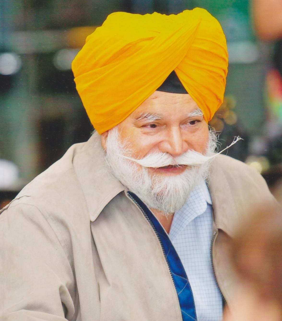 Dr. Aulakh at age around 70